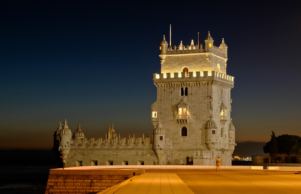 This file was uploaded for Wiki Loves Monuments in Portugal with the unique identifier 323060.